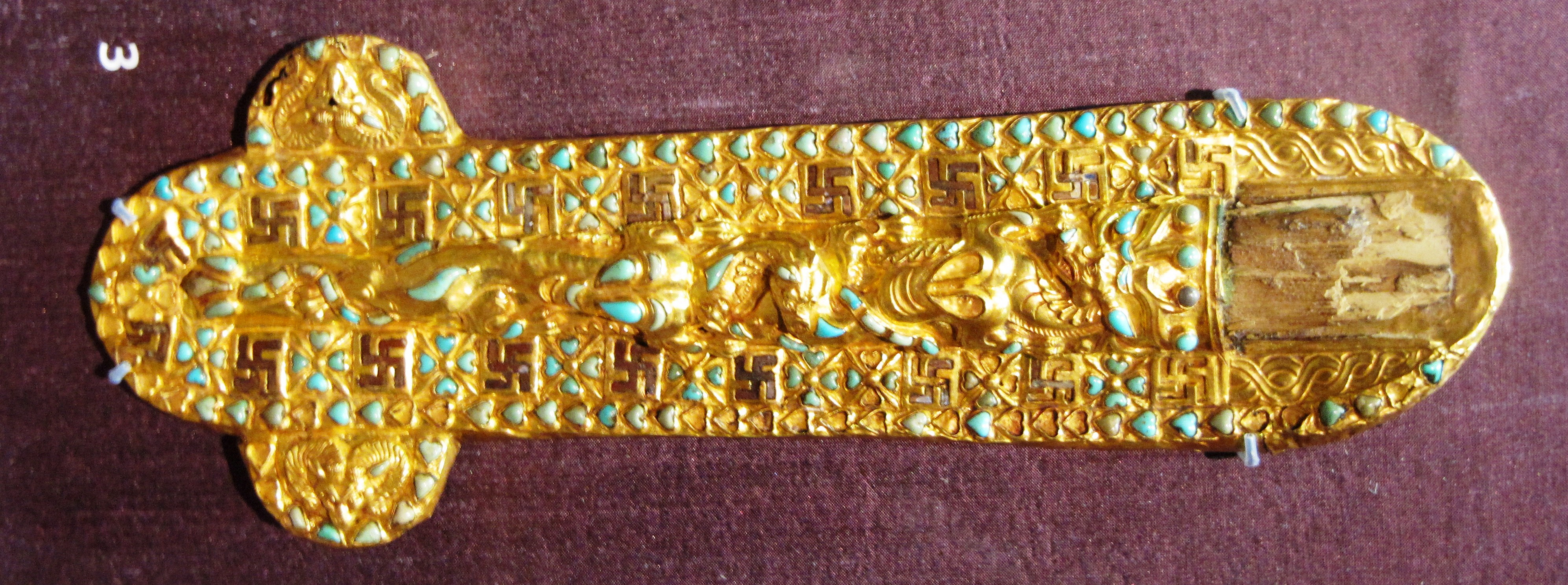 Sheath for three knives, Tillya Tepe, Tomb IV, Second quarter of the 1st century A.D., Bronze, gold, turquoise (within the sheath is the iron blade of a dagger with a worked ivory handle), National Museum of Afghanistan, Personal photograph 2011, British Museum.